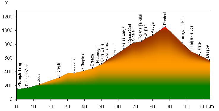 elevation profile of the railway track Ploiesti-Brasov